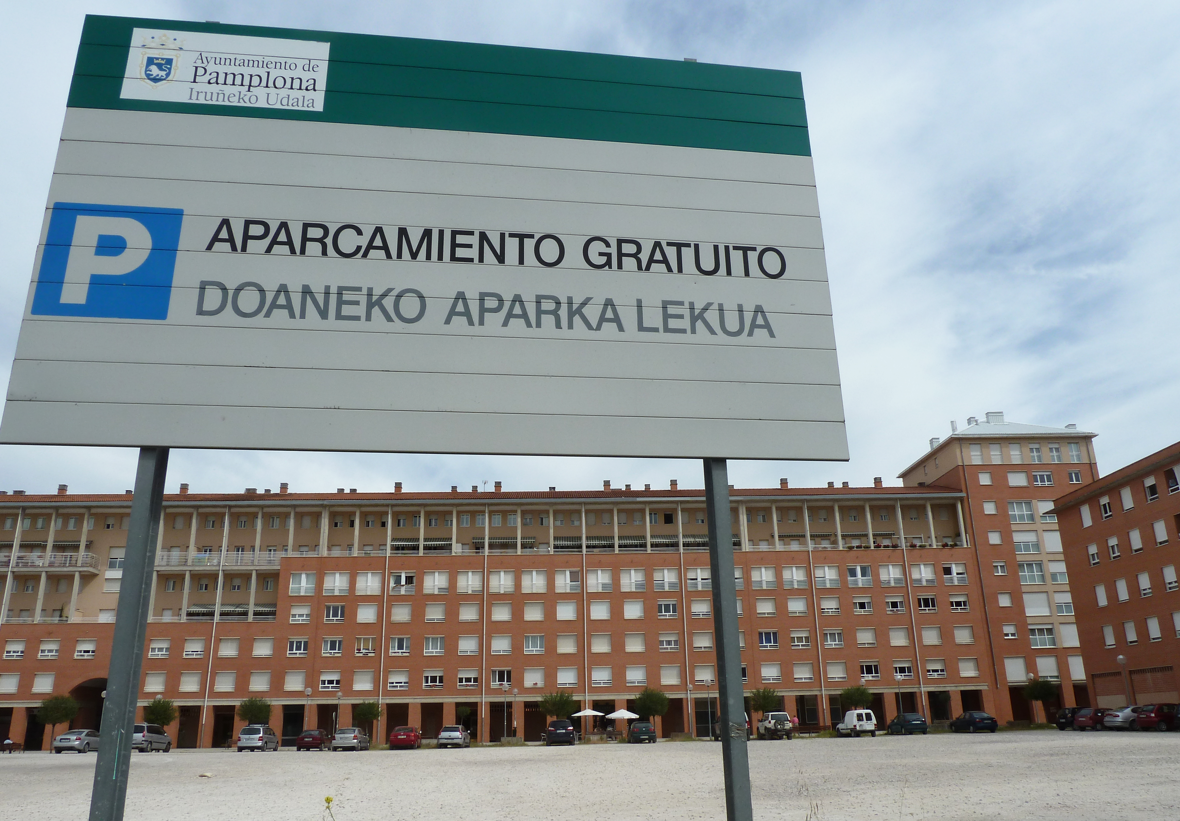 Free surface parking fit out by the City Council of Pamplona/Iruña in Sandua parade (district of San Jorge/Sanduzelai). It has 580 parking spaces.